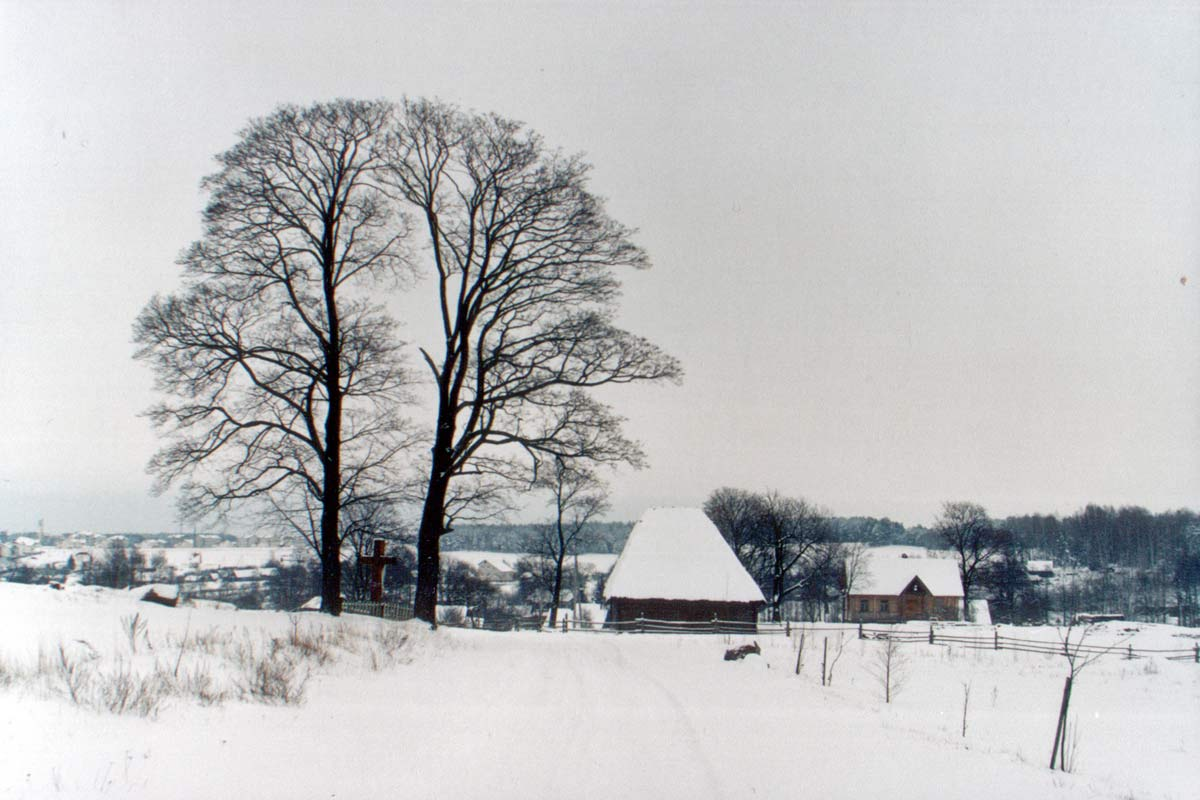 Memorial estate to belarusian poet Maksim Bahdanivič , v. Rakucioŭščyna, Maladzyechna Raion, Minsk Voblast Беларуская (тарашкевіца): Музэй-сядзіба беларускага паэта Максіма Багдановіча ў в. Ракуцёўшчына, Маладзечанскі раён, Менская вобласьць